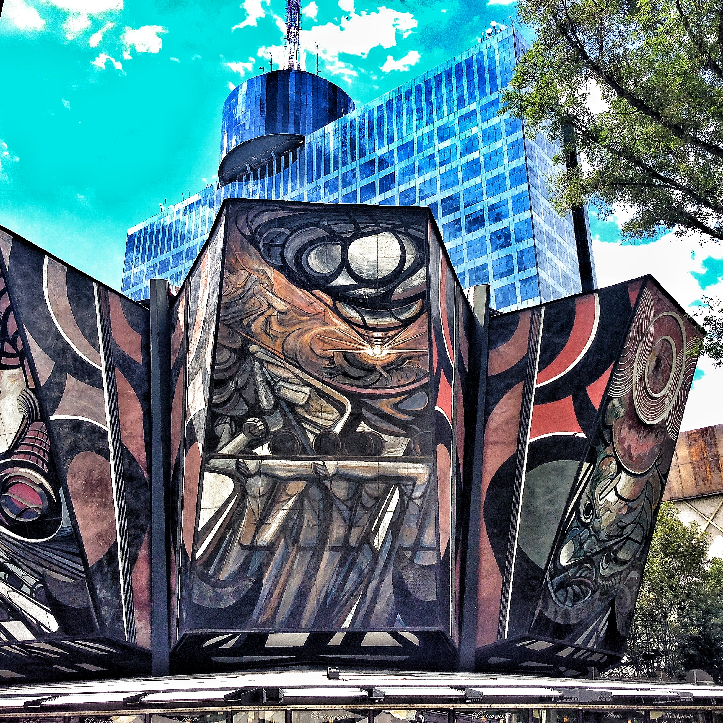 Polyforum Siquieros and WTC in background